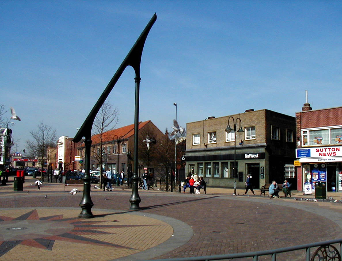 This is one of the largest sundials in Europe, Portland Square, Sutton-in-Ashfield, Notts, England. This sundial held the record for the biggest sundial in Europe. It was installed in 1994. Currently, the largest sundial In Europe is also the largest sundial of the world and is located in Zaragoza (Spain)